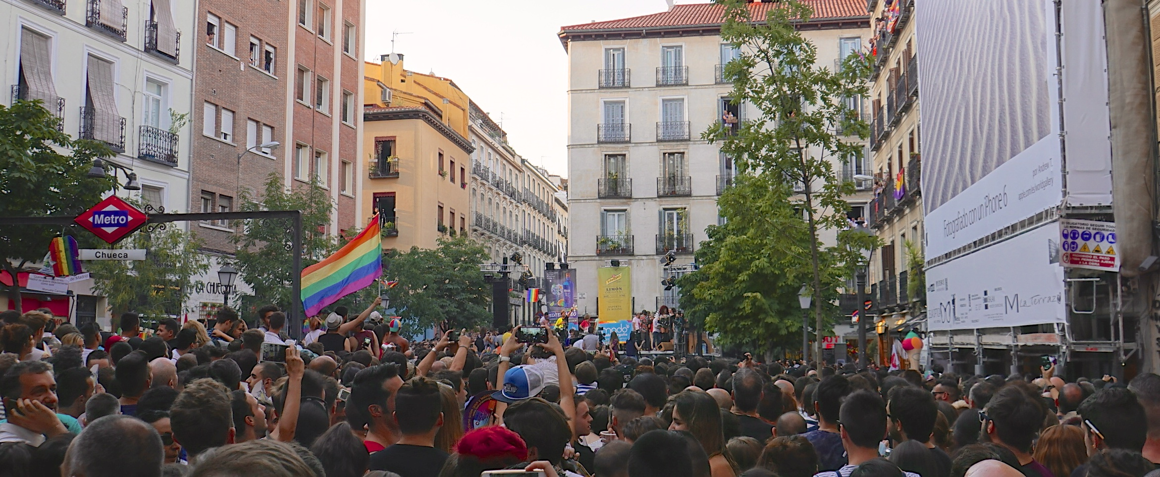 2015.07.01 Madrid Orgullo - LGBTQ Pride